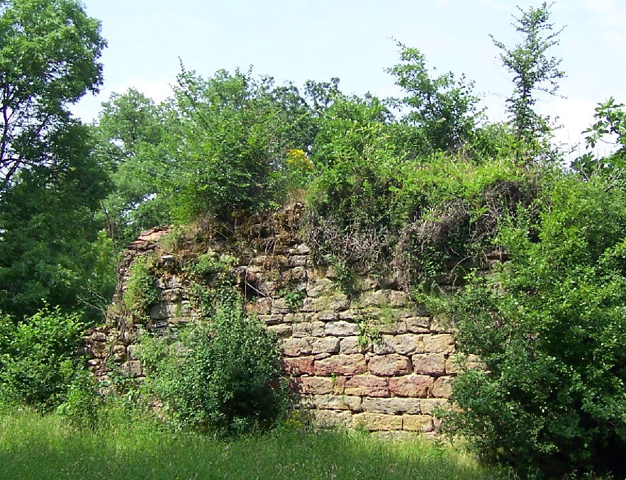 Ruins of the Tower of Maroc or tower of Marot in the place called La Garénie in town Assier in France. This tower was the haunt of the captain Bassorat during Hundred Years' War till 1395.